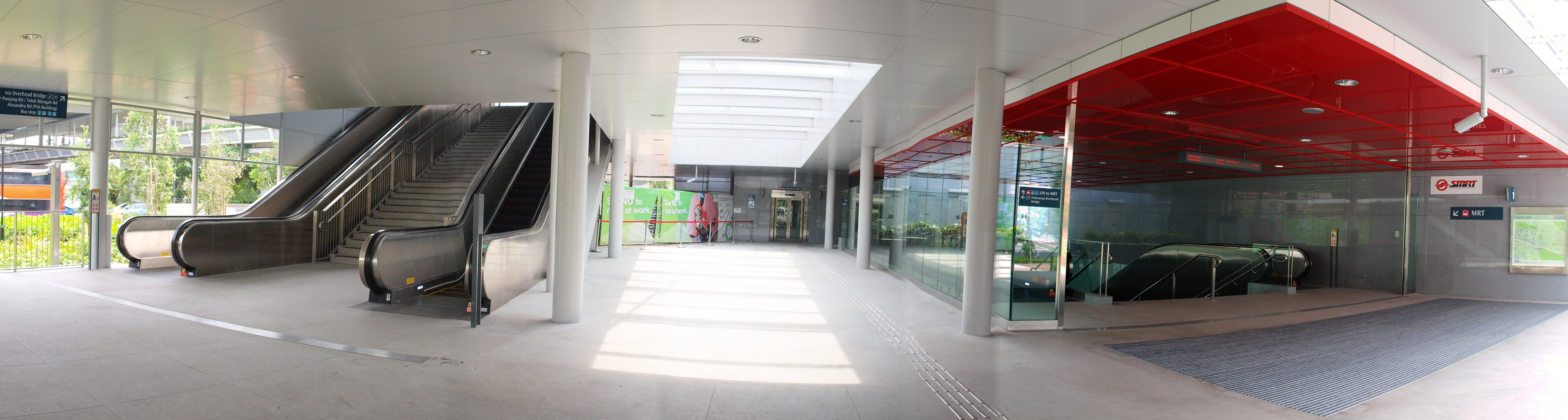 station exit